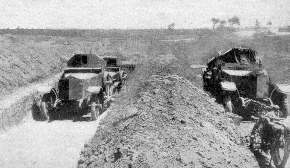 Rolls-Royce armoured cars of the Royal Naval Air Service in protective "berms" at Cape Helles during the Battle of Gallipoli. Photo from The War Illustrated, 7 August 1915. Caption reads: "Crude garage of the iron war-horse. This photograph shows how armoured cars are hidden from Turkish observation posts. The value of such weapons on Gallipoli, where there are no roads to speak of, must be rather questionable, though armoured cars have rendered great service to the Allies in France and Flanders".